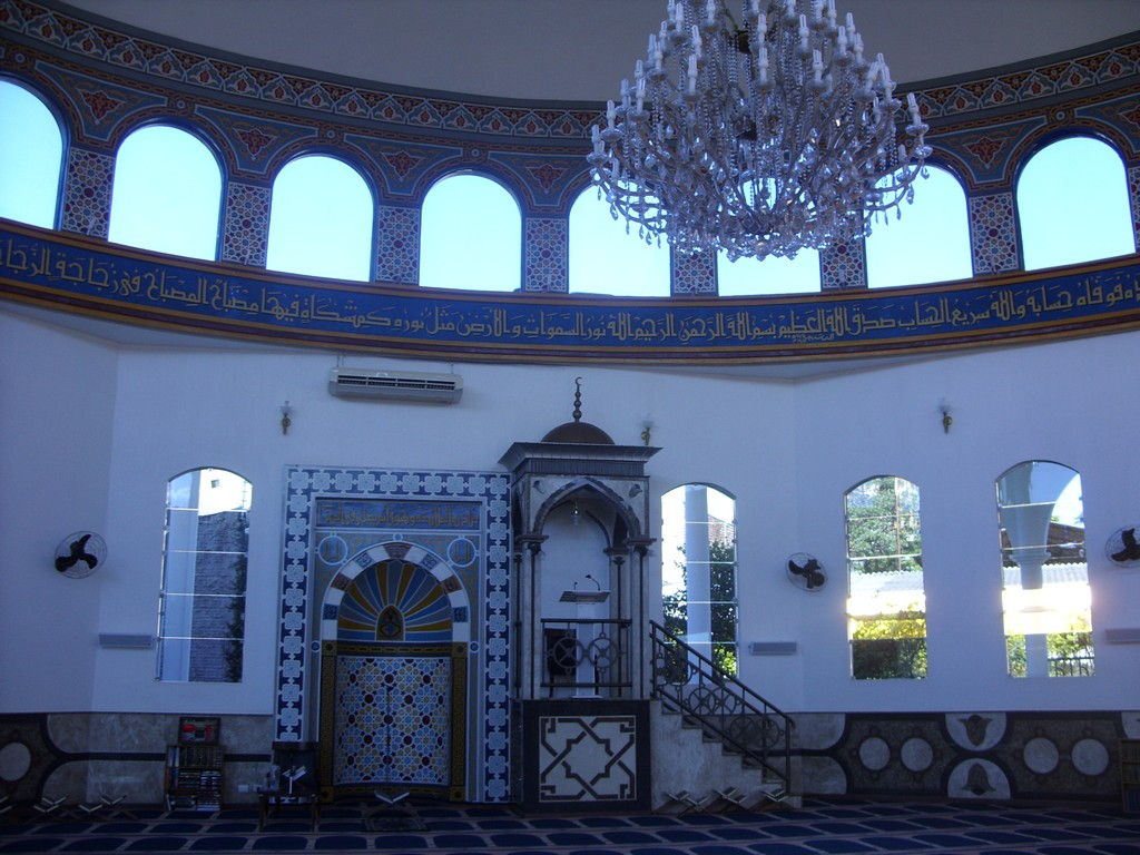 The Omar ibn al-Chattab mosque of Foz do Iguaçu